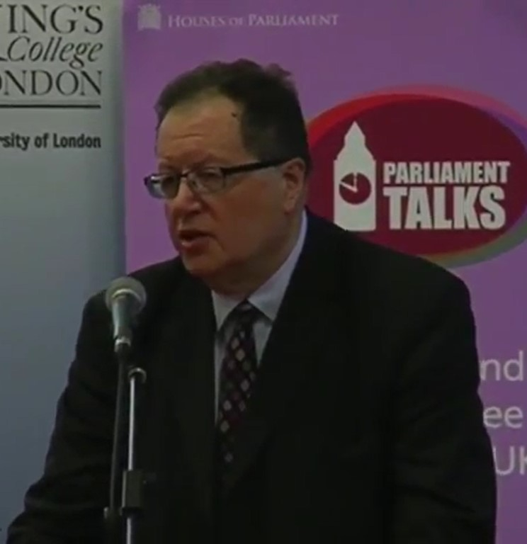 The Right Honourable Timothy Eric Boswell, Baron Boswell of Aynho, makes a speech about Parliament's relationship with the European Union.